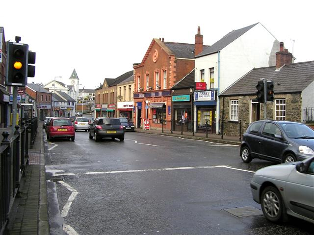 Ballyclare, County Antrim